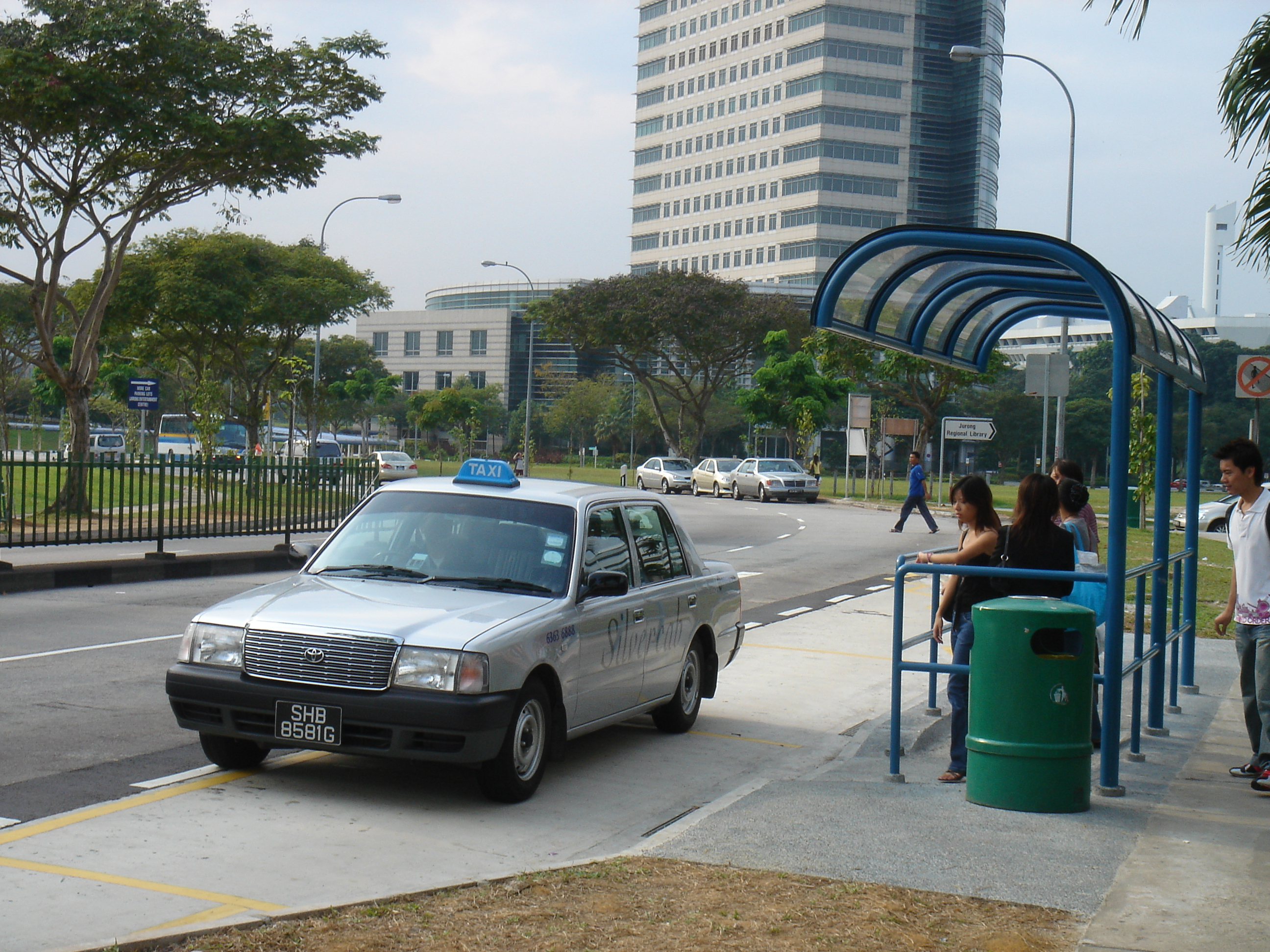 A Silvercab taxi waiting at a Taxi Stand in Jurong East, Singapore.